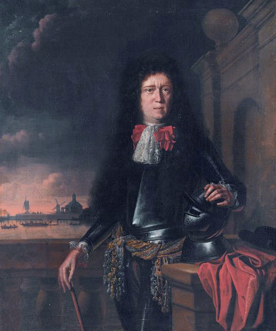 Joan van Broekhuizen (1649-1707) oil on canvas 47 x 39 cm 1695 - 1705